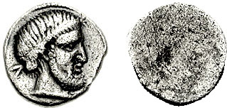 Etruria, Populonia. 3rd century BC. AR 5 Asses (1.92 g). Filleted head of Tinia left; V behind Blank. Vecchi III 42 (same obv. die); SNG ANS 32 (same obv. die); HN Italy 174. Good VF, toned, light porosity. Rare.